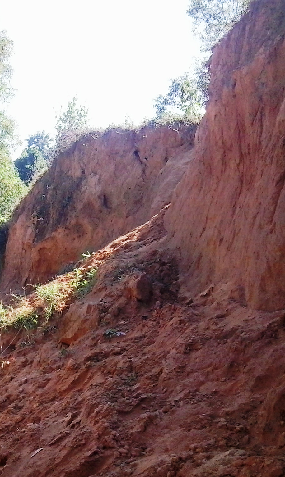 Lalmai pahar, maynamati, comilla